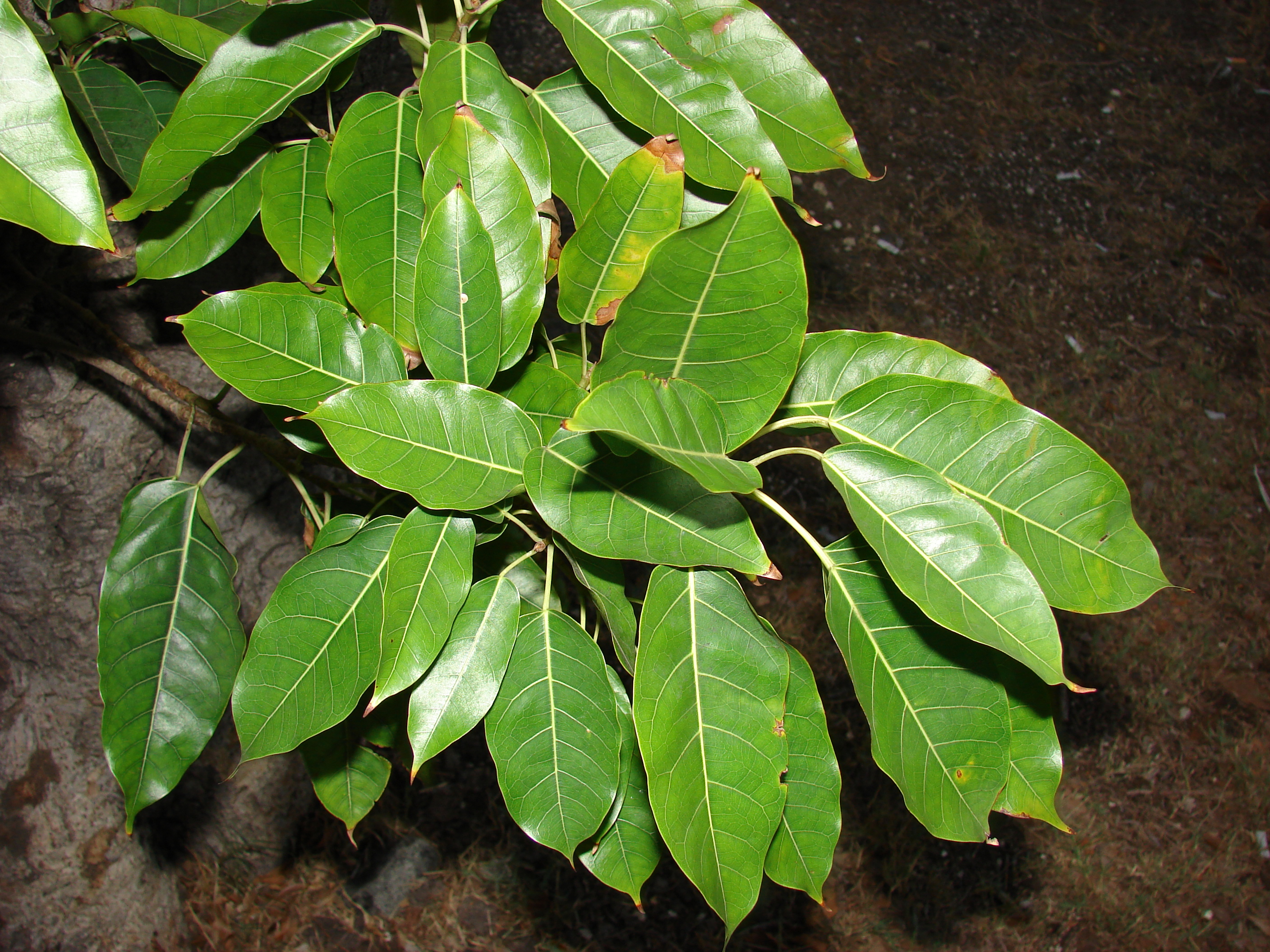 Ficus nota (leaves). Location: Oahu, Near Ala Moana Blvd